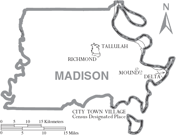 Map of Madison Parish, Louisiana, United States with municipal boundaries